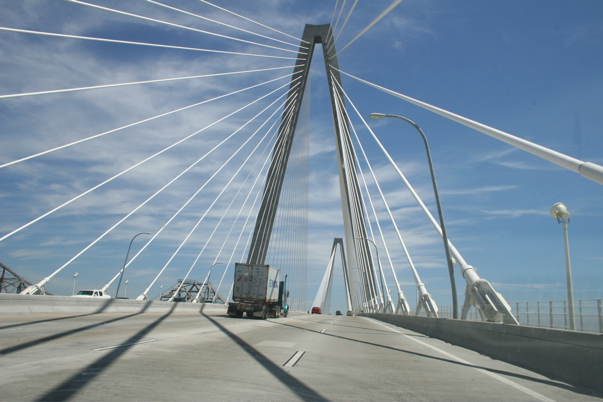 Arthur Ravenel, Jr. bridge, Charleston, SC. Taken by Liz Clayton, 5 April 2006.